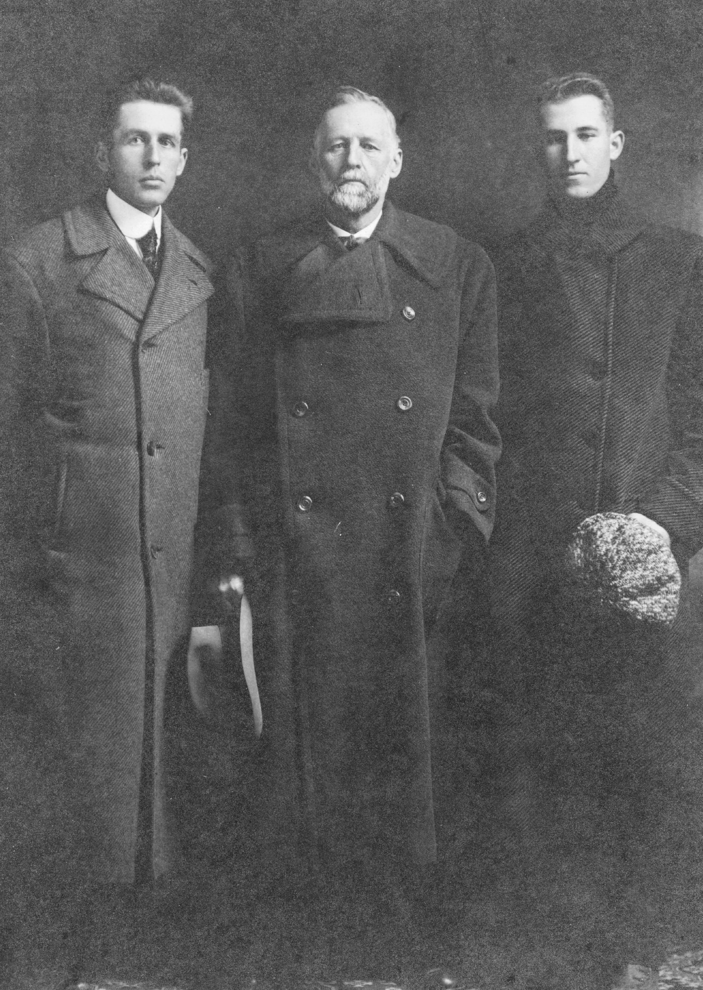 More than 100 year old photo